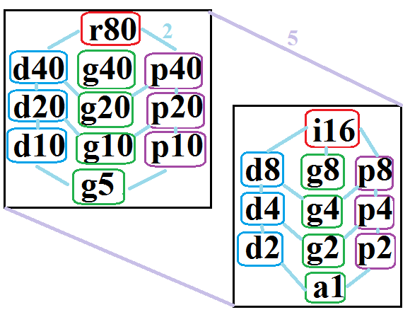 tetracontagon symmetries